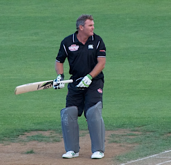 Martin Crowe batting in a charity match in 2011. This image cropped from Kristina D.C. Hoeppner's original image.